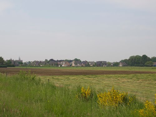 Overview of Duizel village and landscape from Sportpark road.